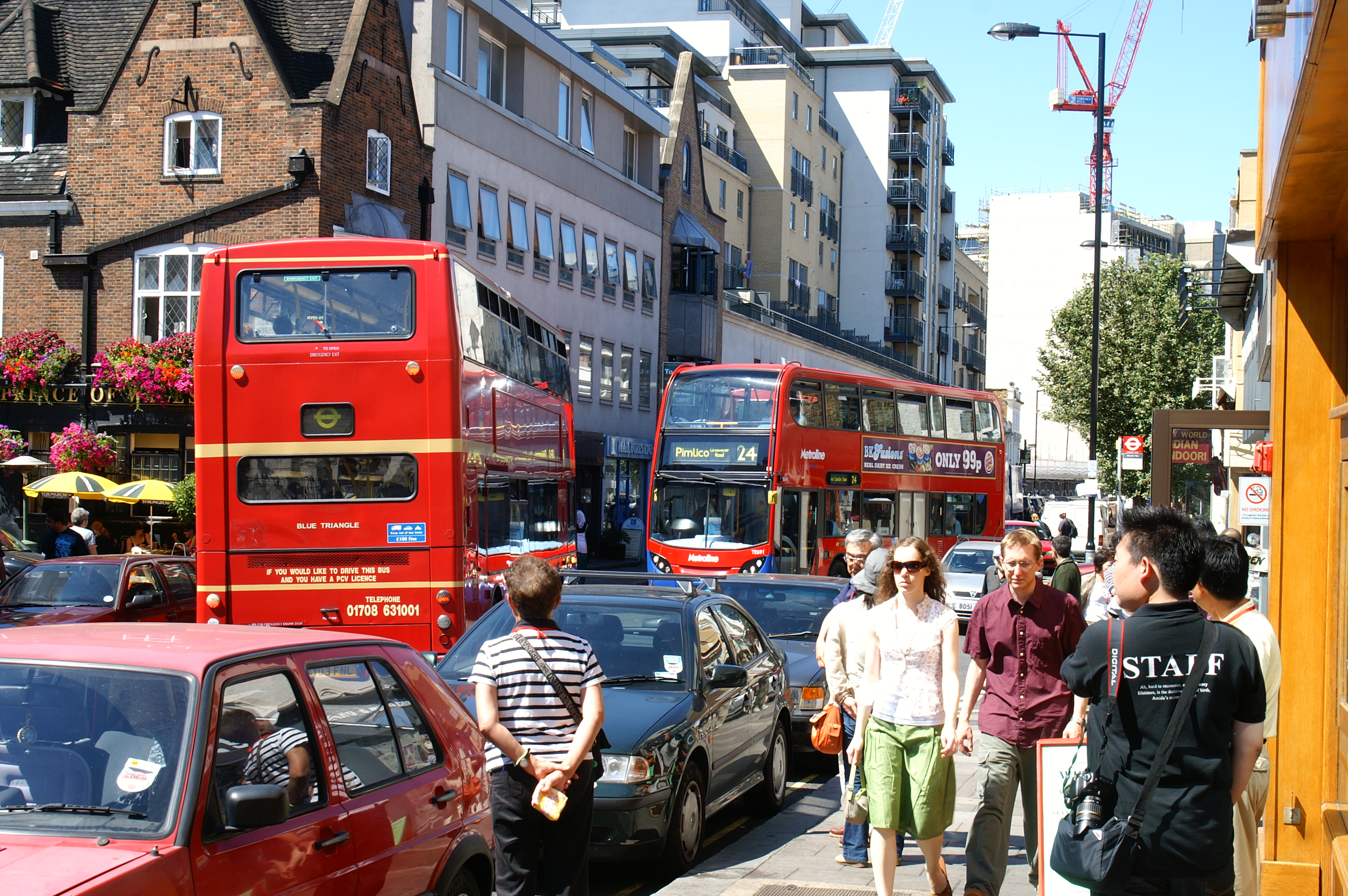 The view north up Wilton Road in Pimlico, London. The Prince of Wales pub on the corner with Longmoore Sreet is visible to the left. Two London buses battle the traffic - a Metroline bus operating route 24 facing the camera, is not far short of it's destination, while the other bus belongs to Blue Triangle and is presumably operating a Tube replacement service (based on the fact it has no route number except a Transport for London roundel, and the fact that rail replacement work is regularly done by Blue Triangle, and that it is a Saturday).